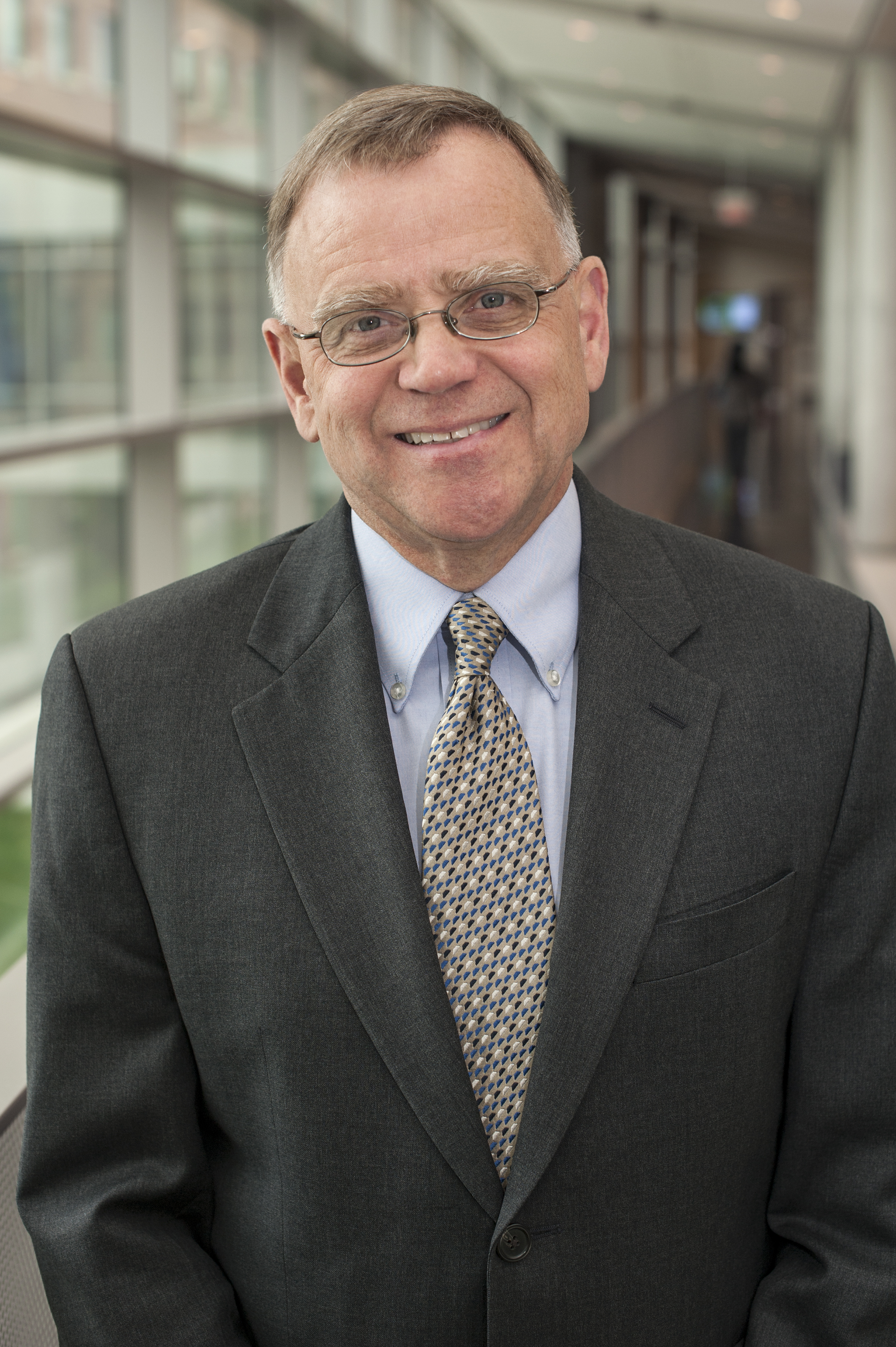 Michael R. Taylor is FDA’s Deputy Commissioner for Foods and Veterinary Medicine. He's also a contributor to FDA Consumer Updates and FDA Voice, the agency's official blog. This photo is free of all copyright restrictions and available for use and redistribution without permission. Credit to the U.S. Food and Drug Administration is appreciated but not required. For more privacy and use information visit: FDA photo by Michael J. Ermarth